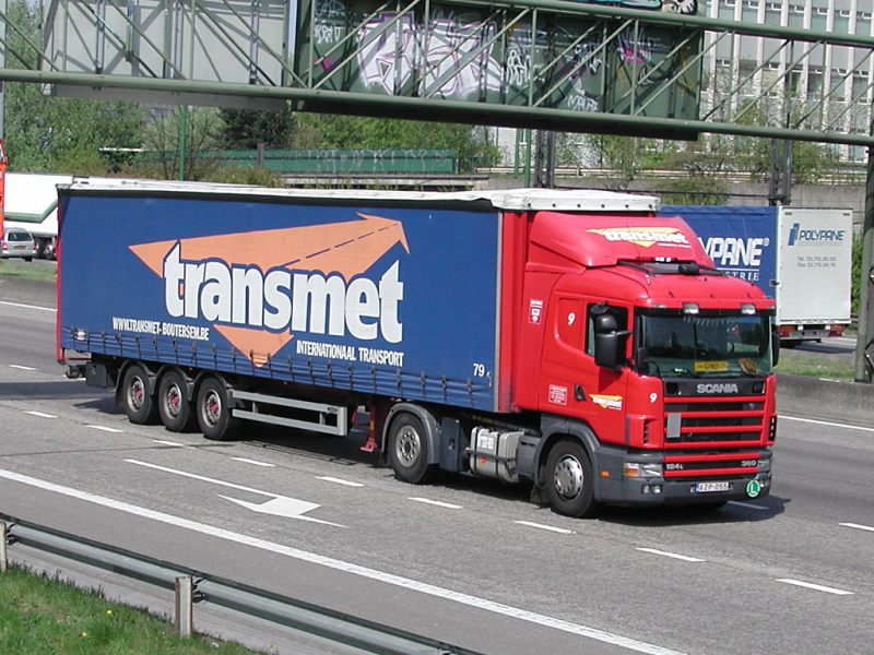 This picture can be found in gallery Scania AB